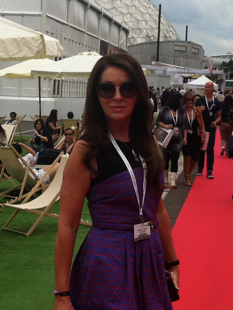 Kay Cohen at the Salon International de La Lingerie Paris in July 2011.